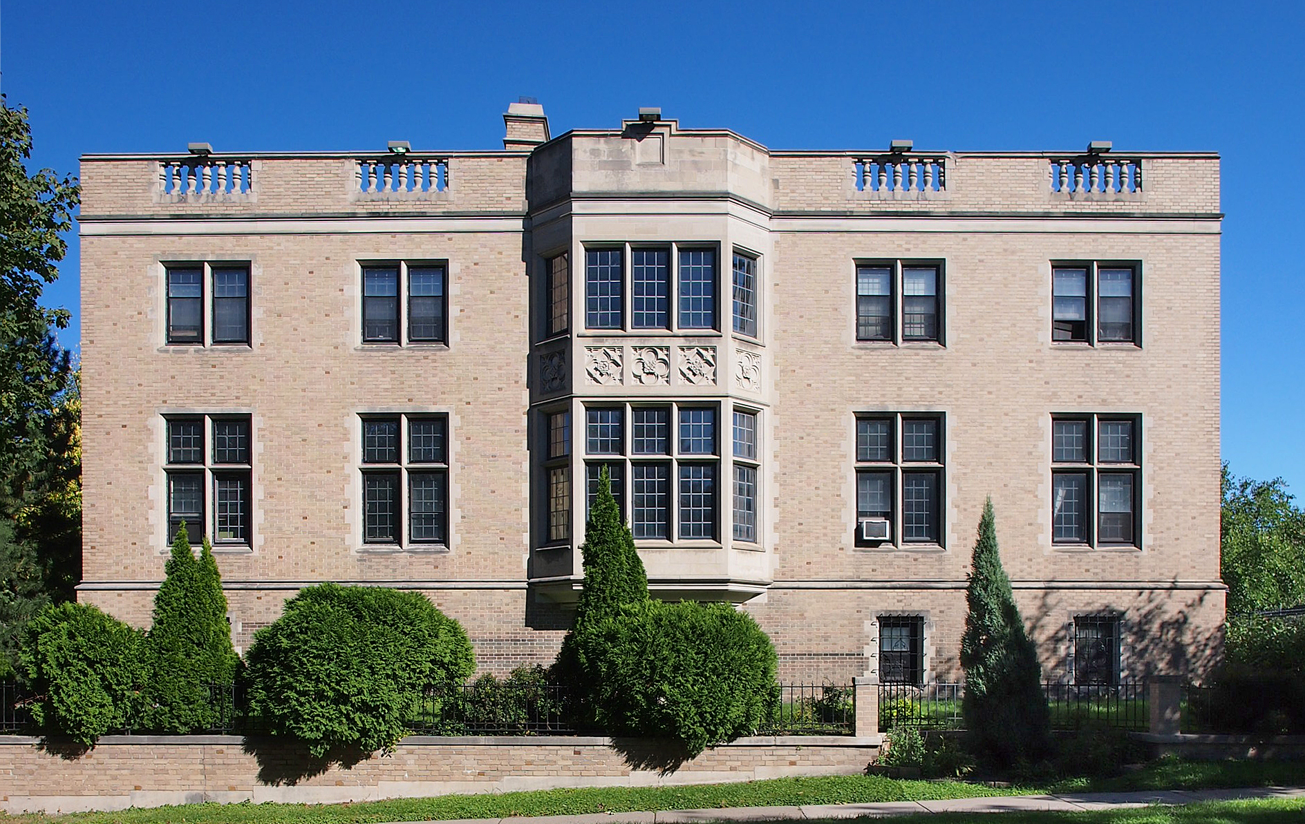 Hennepin History Museum, 2303 3rd Ave S, Minneapolis, Minnesota, USA. Viewed from the west.